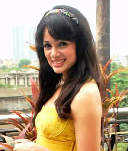 Vidya Malvade at Hira Manek celebrates International Diamond Day